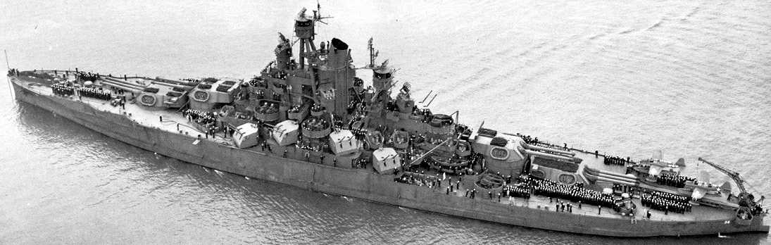 USS Nevada (BB-36) anchored off San Francisco prior to transfer to the Atlantic, 1 July 1943.